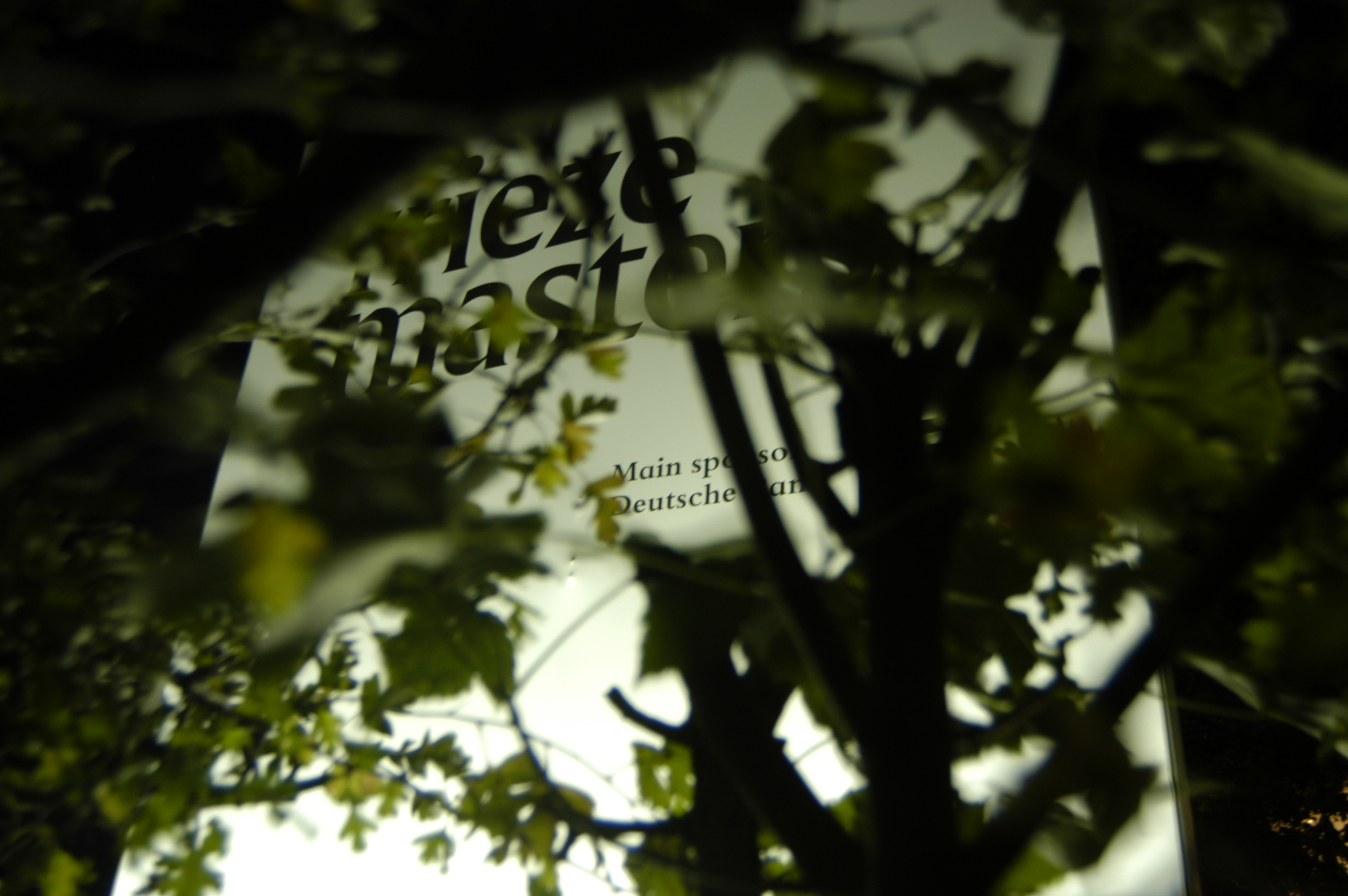 Photo (by me, R. de Salis Rodolph (talk) 00:47, 23 November 2014 (UTC)) of Frieze Masters London Art fair October 2014.